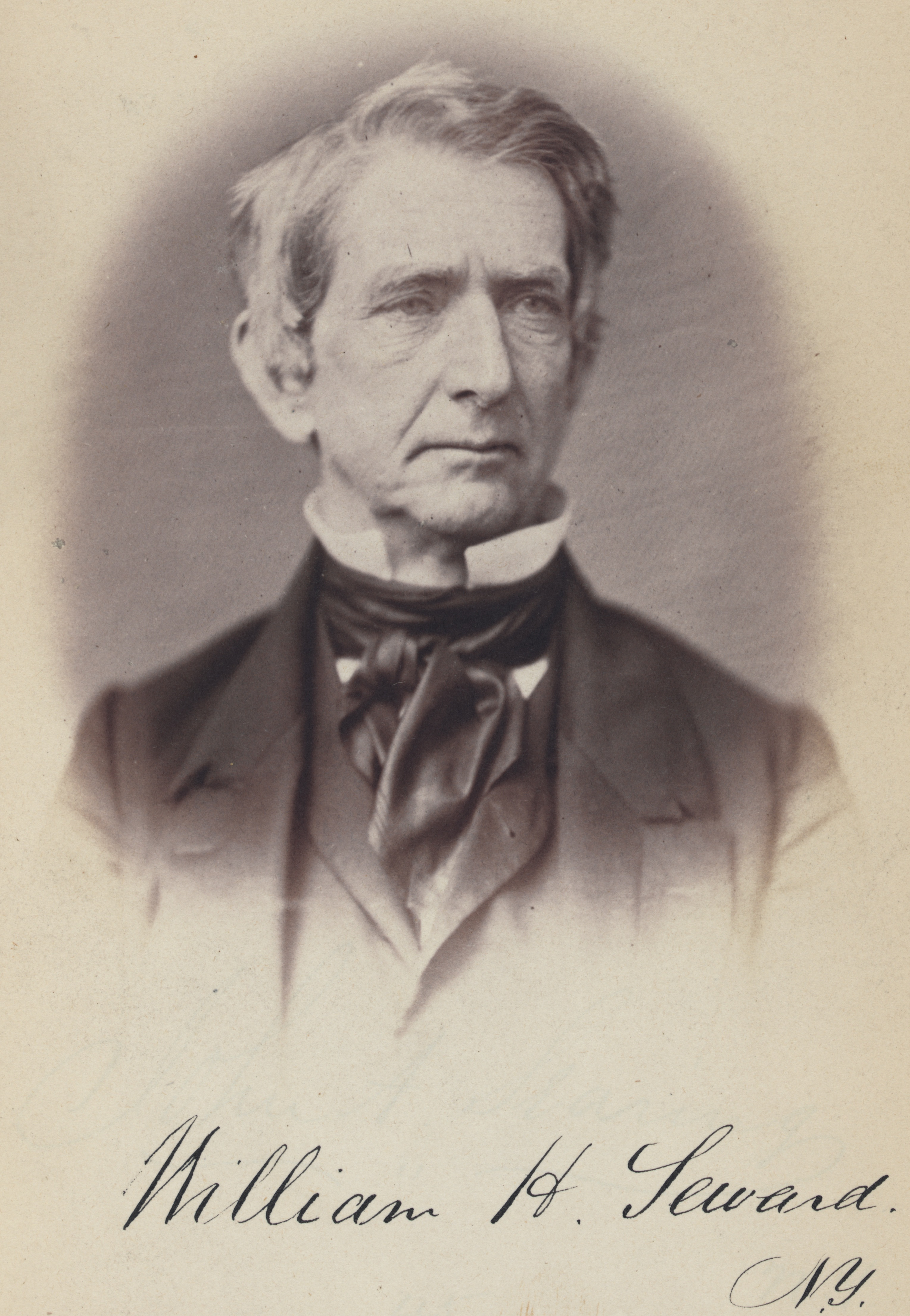 William H. Seward, then Senator from New York